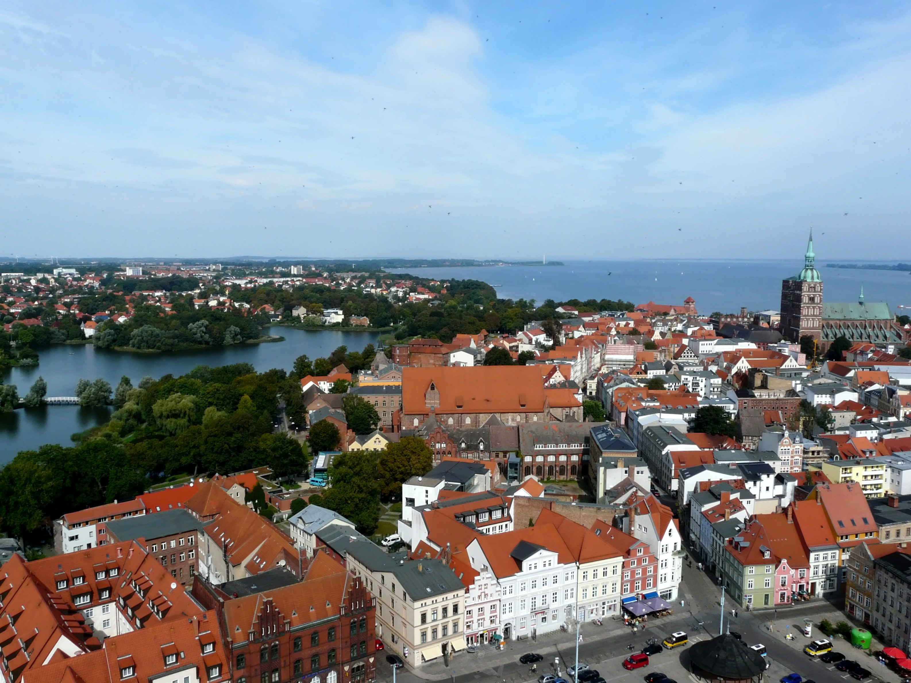 Stralsund - strait Strelasund and ponds